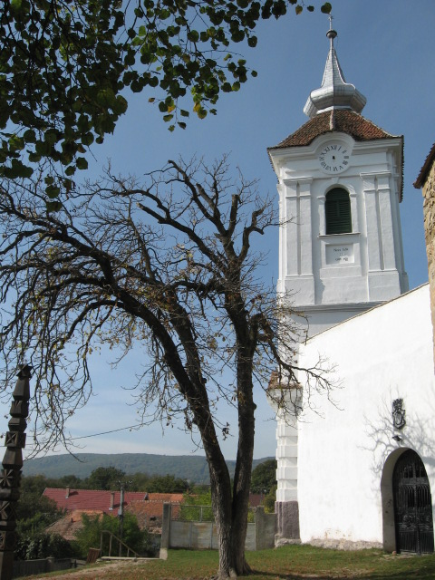 Covasna County ,Arcuş, Unitarian Church